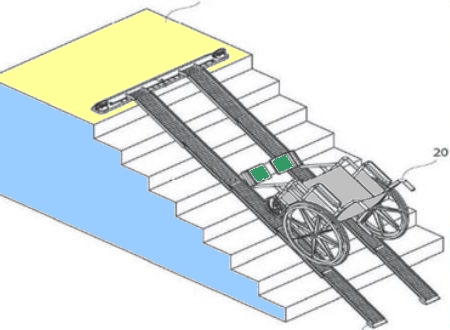 mobile traject